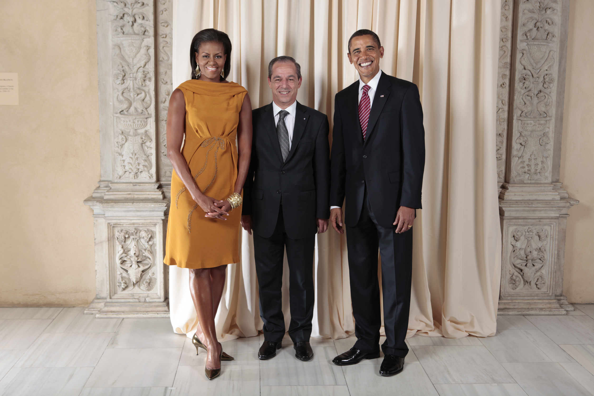 President Barack Obama and First Lady Michelle Obama pose for a photo during a reception at the Metropolitan Museum in New York with Lawrence Gonzi, Prime Minister of the Republic of Malta.